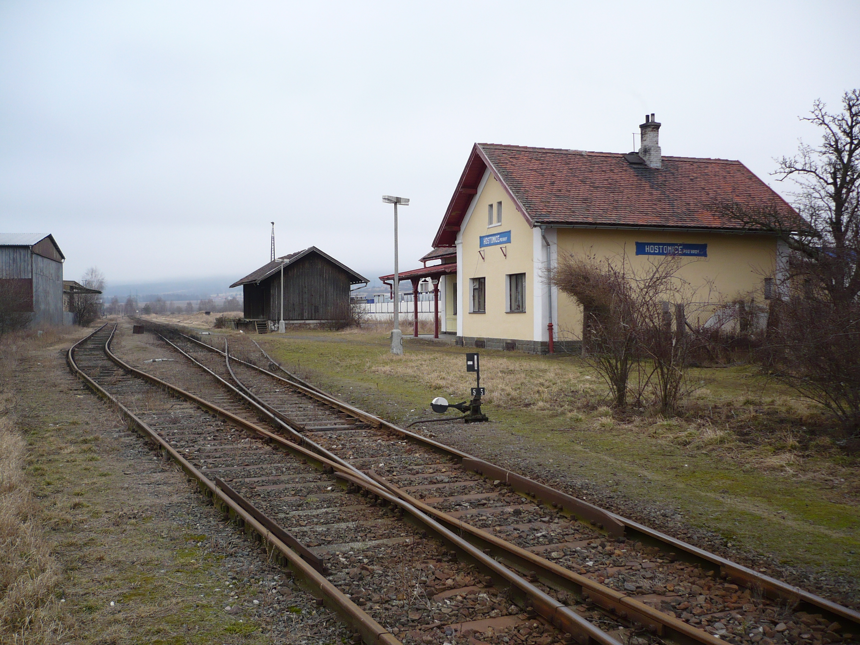 Railway station Hostomice pod Brdy